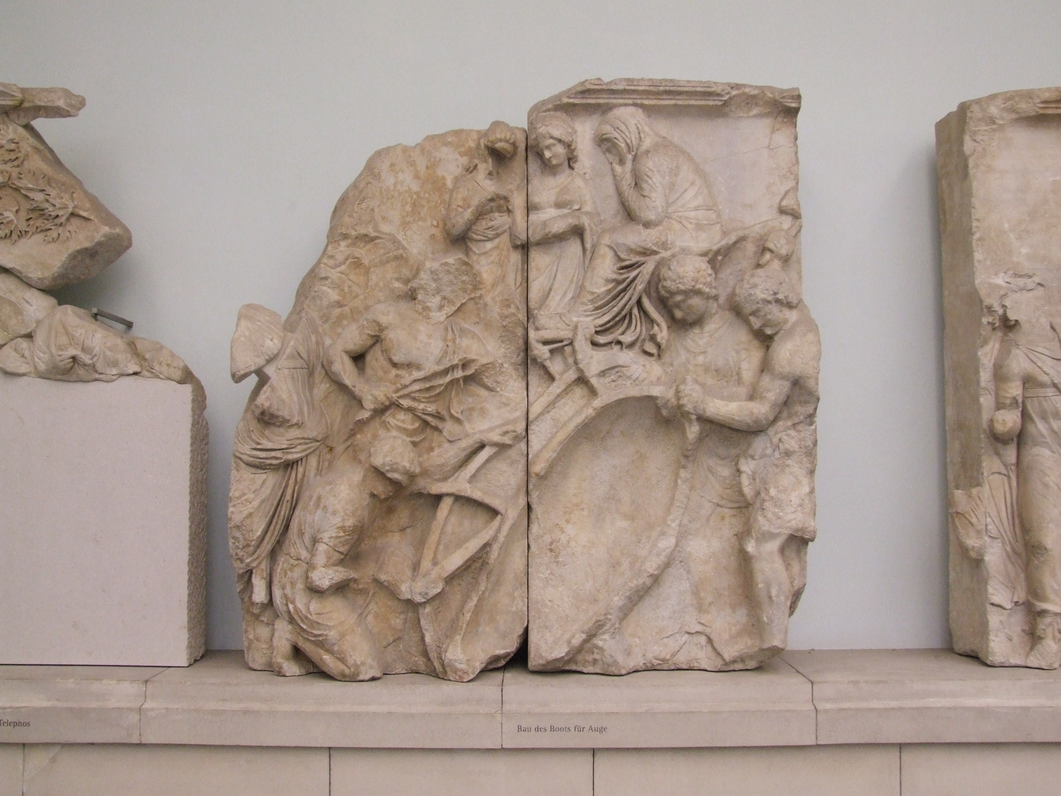 The building of a boat for Auge, mother of Telephos. Telephos frieze of the Great Altar of Pergamon, Pergamonmuseum in Berlin.